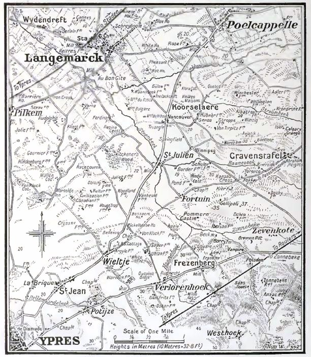 Map Flanders 1917